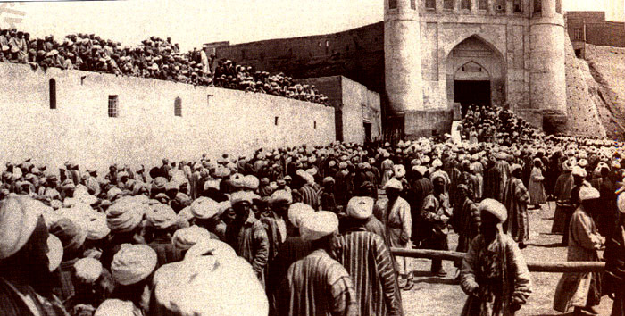 Registan Square before Arkom. Photo unknown artist, early. XX century.